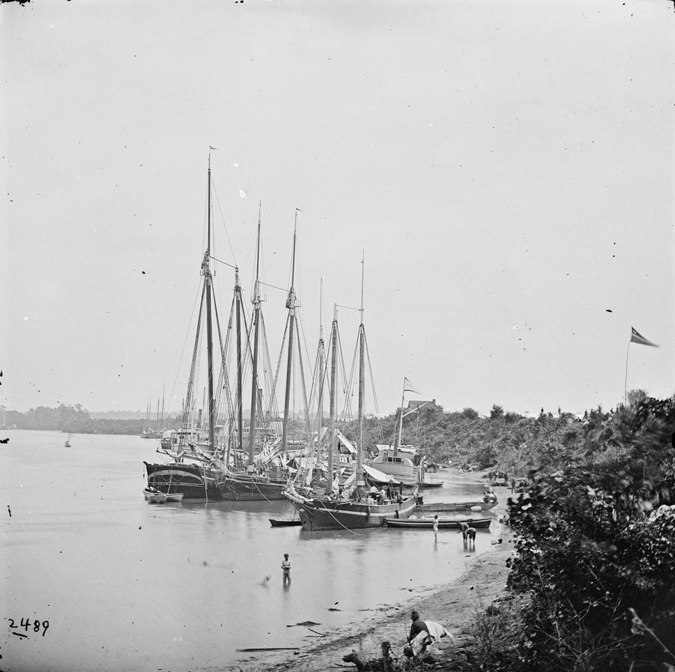 Photograph from the main eastern theater of war, the Peninsular Campaign, May-August 1862.